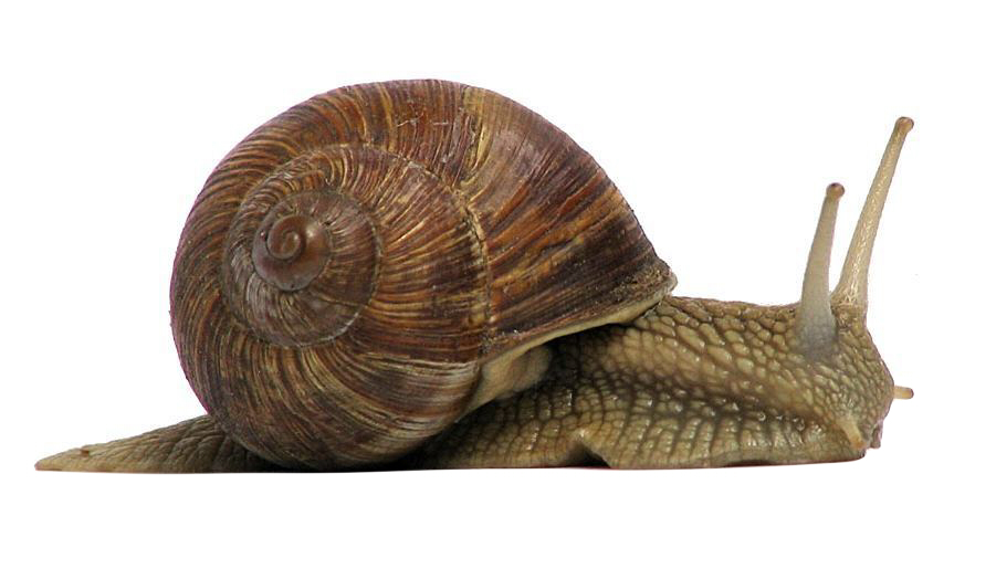 Picture of a grapevine snail.